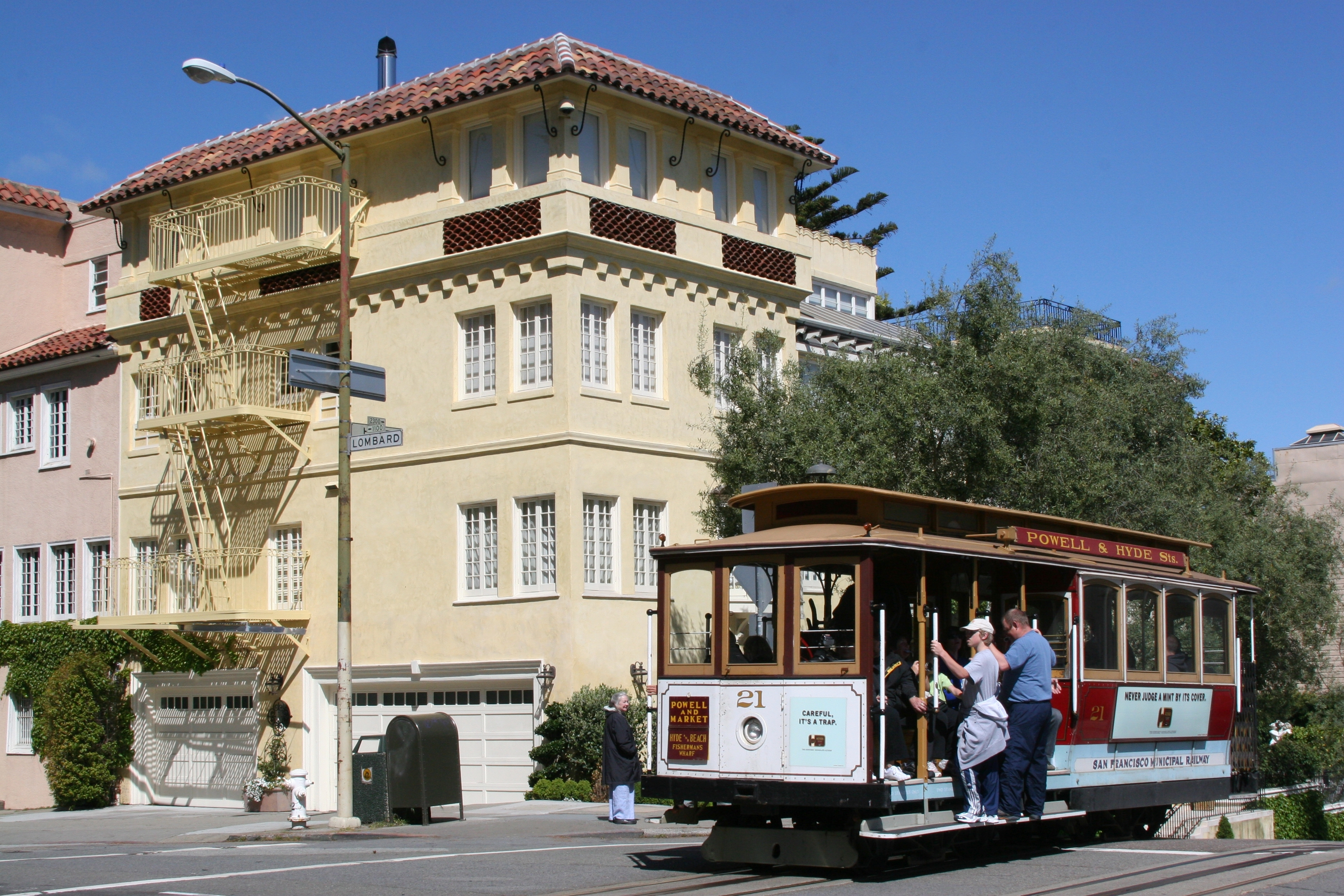 San Francisco cable car at Lombard Street.